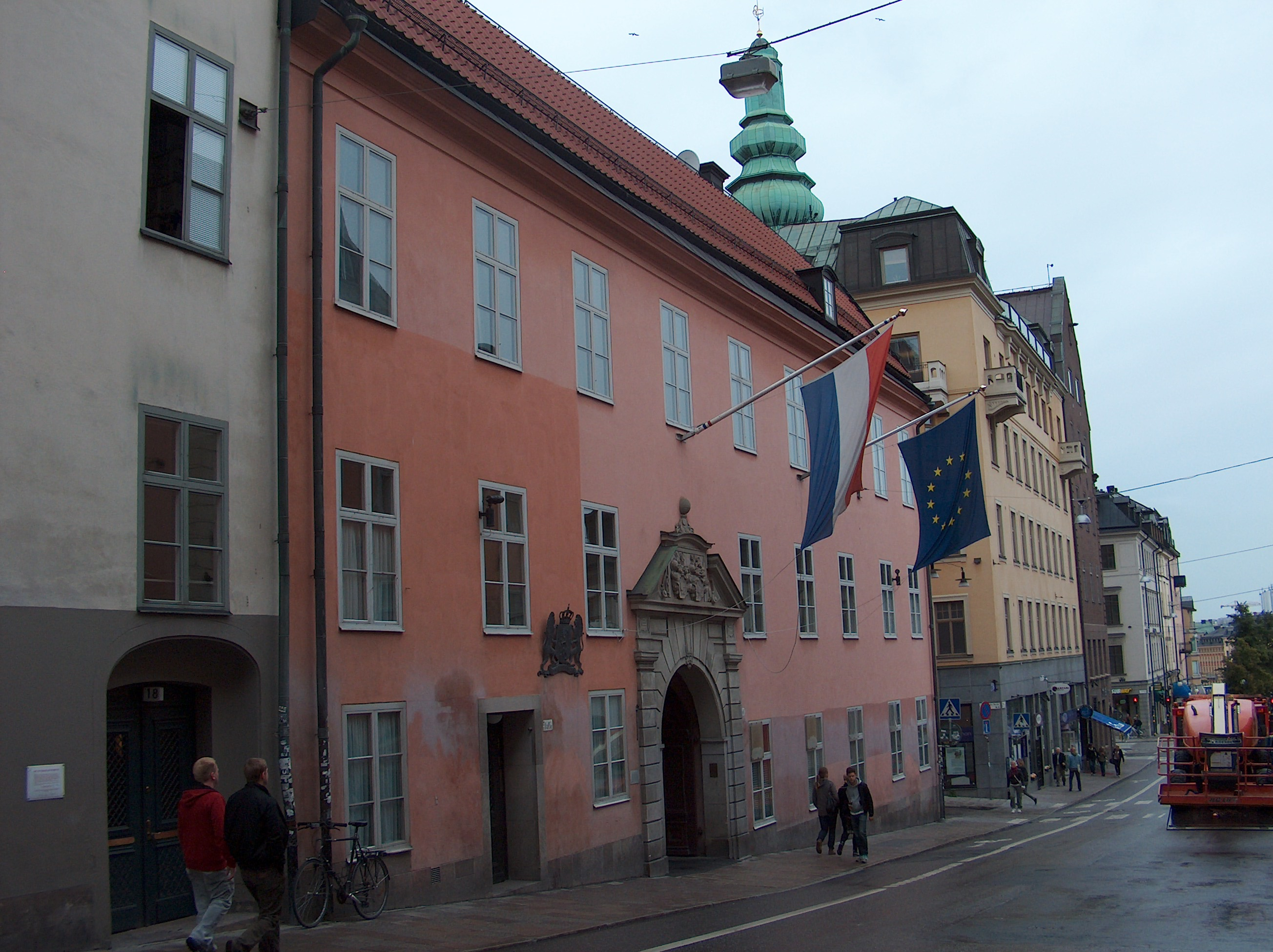 Dutch Embassy in Stockholm, Sweden